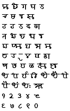 Modi script glyphs